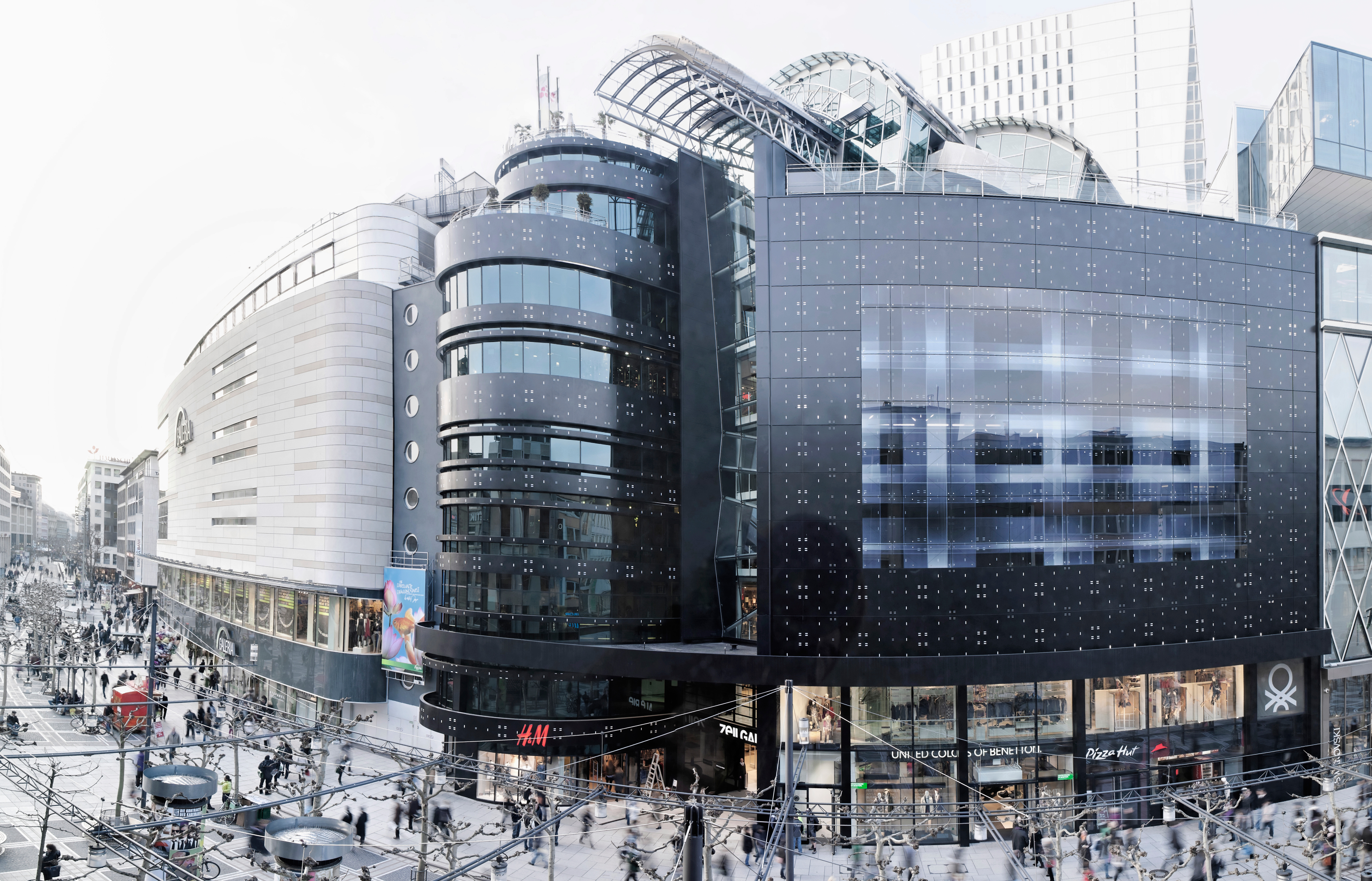 The redesign of the façade and the atrium transforms the well-known shopping gallery into a place of modern urbanity. A complex media installation envelops the building with an aesthetic light ornamentation.